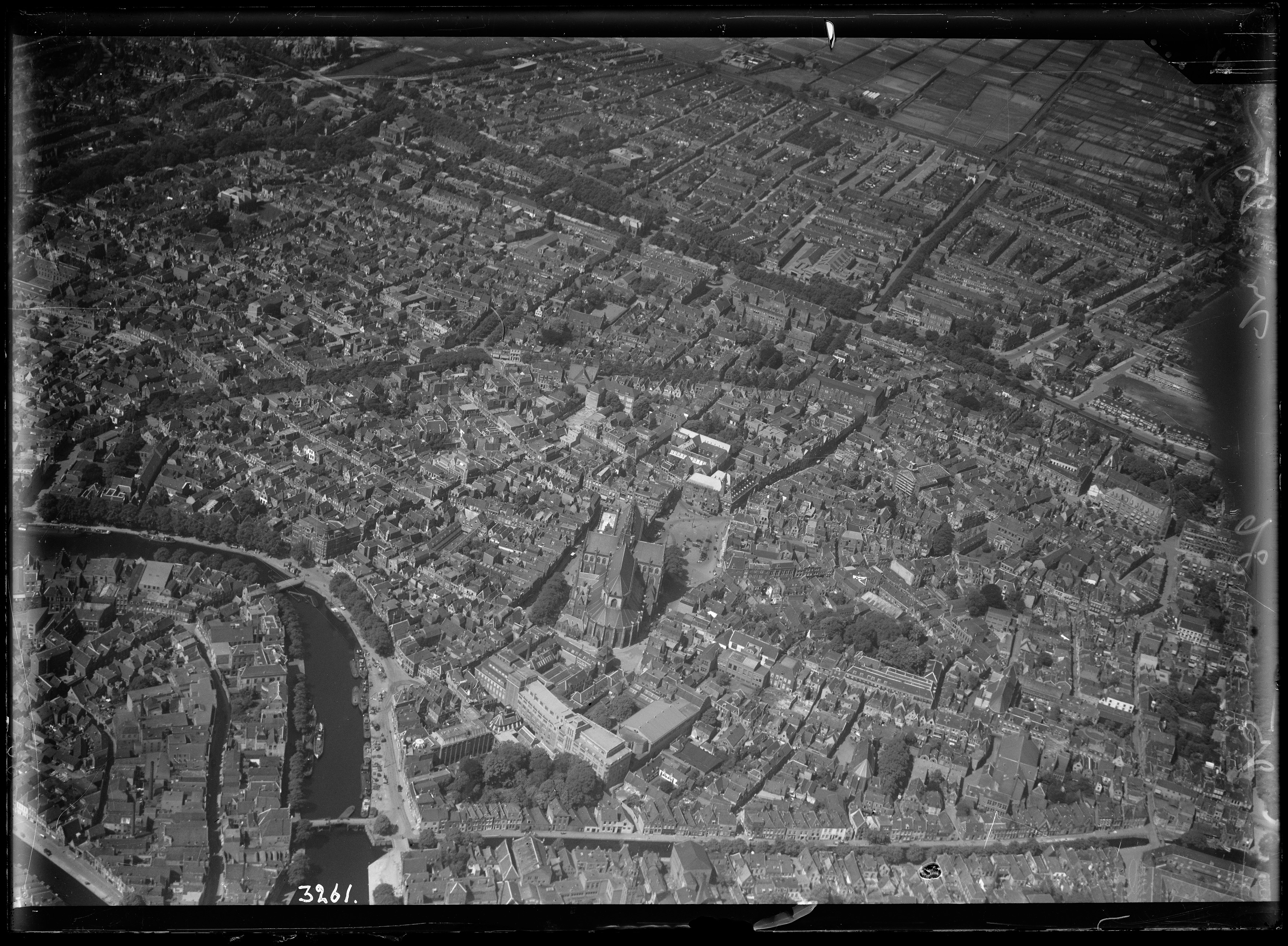 Aerial photograph of Haarlem, The Netherlands